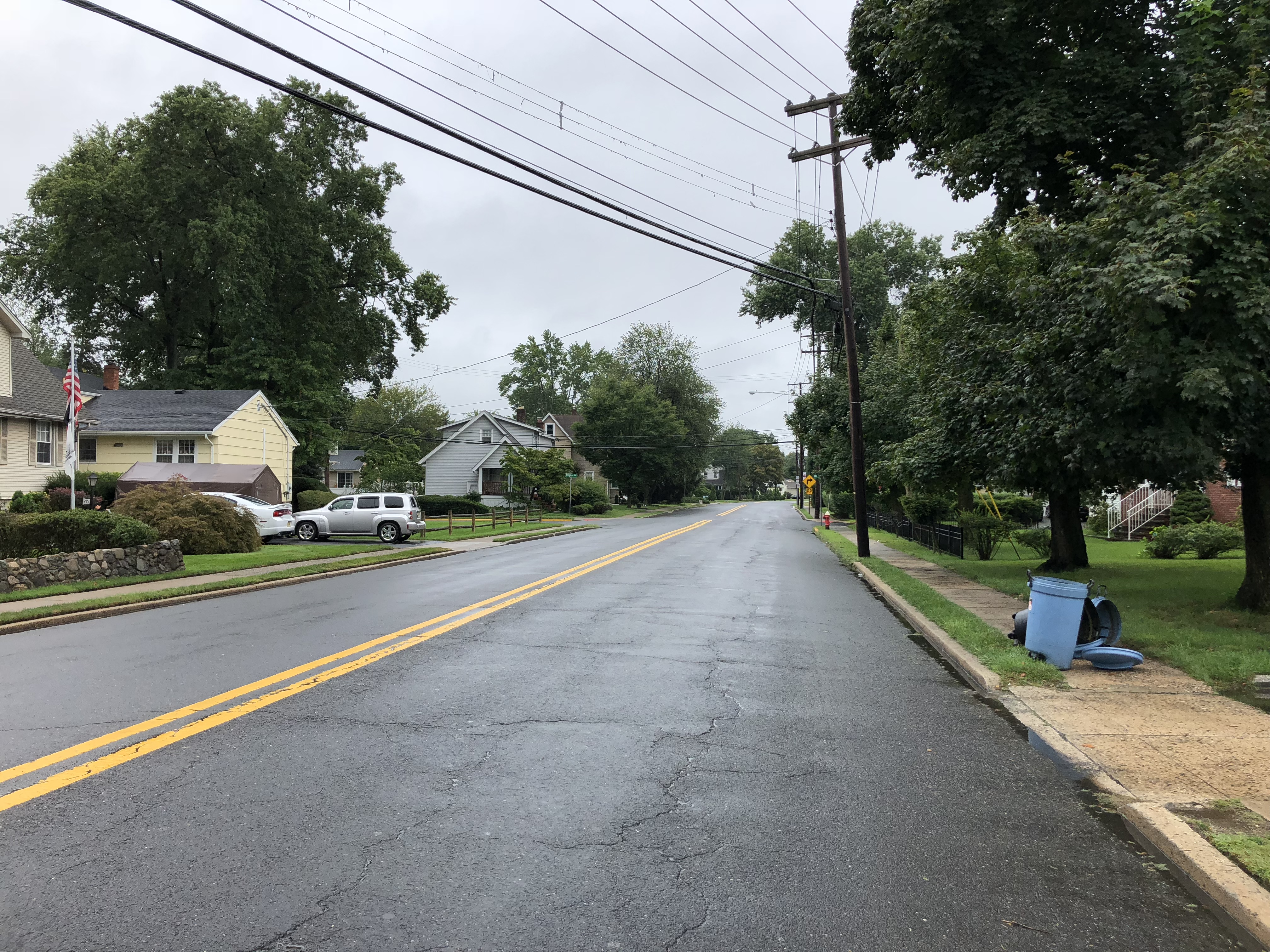 View south along Bergen County Route 41 (River Road) at McKinley Avenue in New Milford, Bergen County, New Jersey